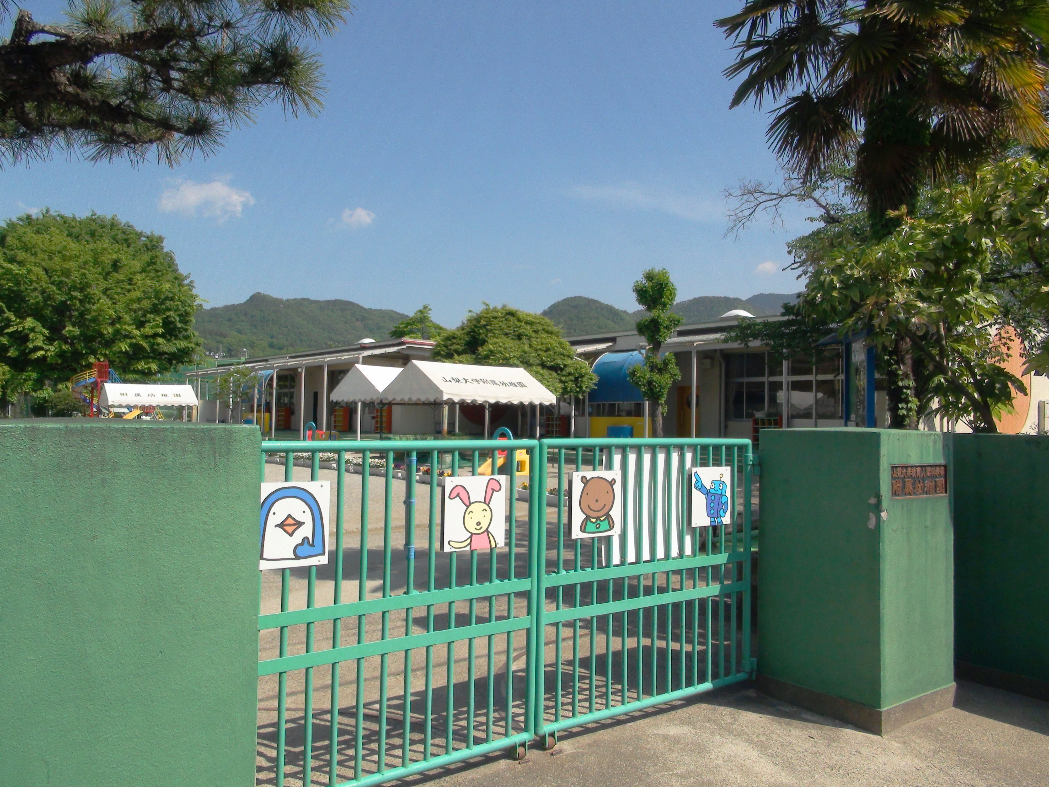 University of Yamanashi Kindergarten